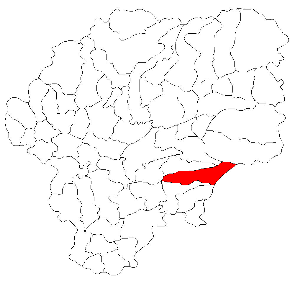 Locator map of commune of Dumitrița, Bistrița-Năsăud County, Romania